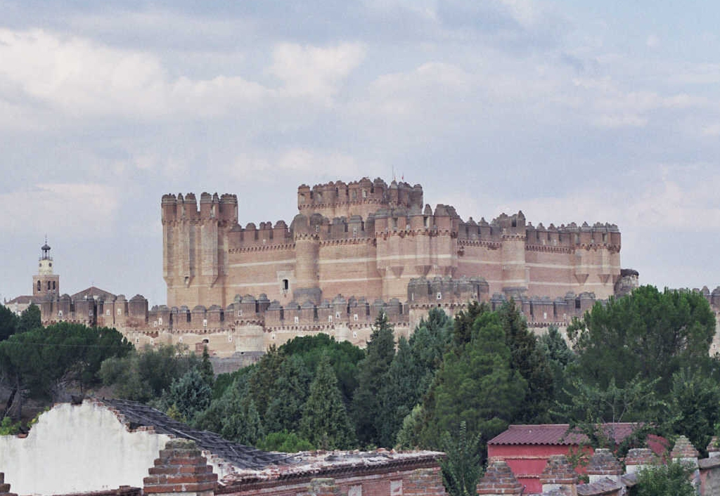 Castle of Coca, Spain